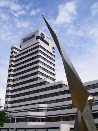 allianz hochhaus königsworther platz